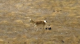 The Tibetan gazelle (Procapta picticaudata), also known as goa, lives on the Tibetan Plateau, in Central Asia.